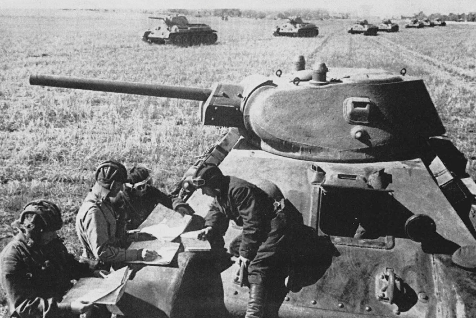 Soviet tanks in training (Eastern Front, 1942)